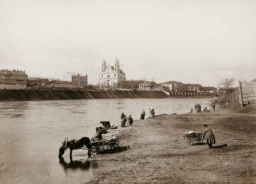 Stanisław Filibert Fleury